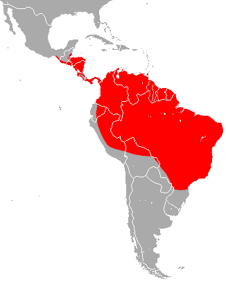 Lesser Sac-winged Bat (Saccopteryx leptura) range